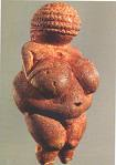 nessa_uepa